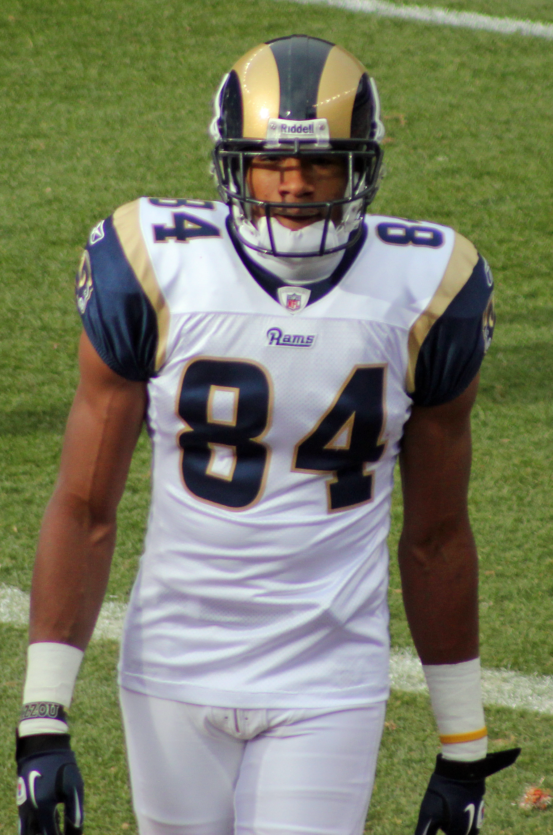 Danario Alexander, a player on the Saint Louis Rams American football team.